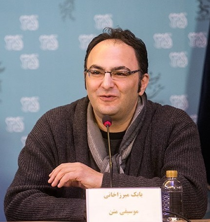 نشست خبری فیلم کوپال